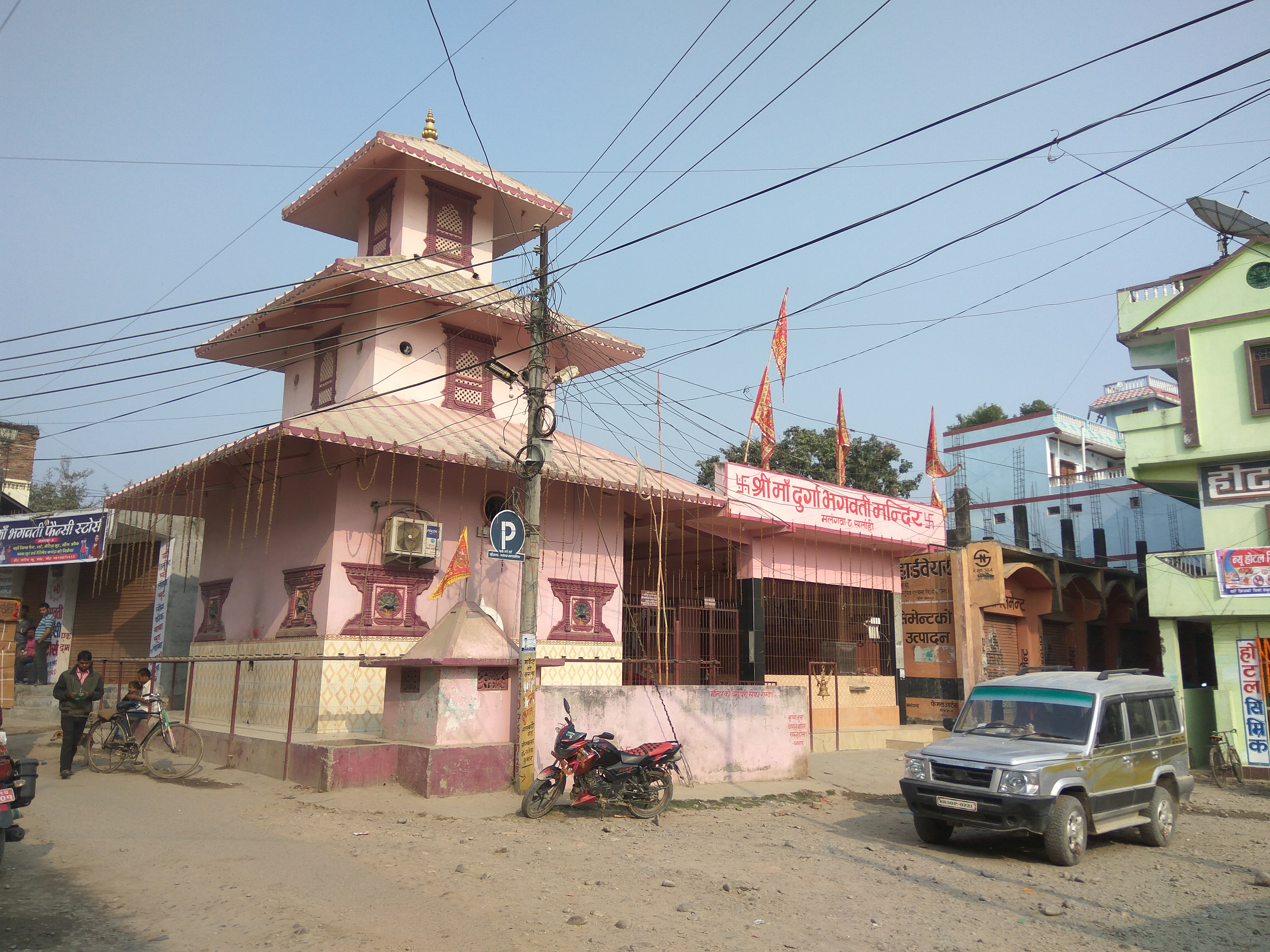 Durga Devi temple at Malangwa, Sarlahi, Nepal.